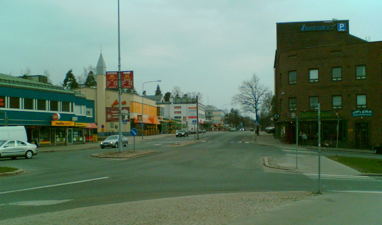 The Center of Hyvinkää, Finland, photo taken westwards on the main street Uudenmaankatu